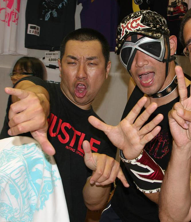 The comedy duo "Razor Ramon", Makoto Izubuchi (on the left) and Masaki Sumitani at the Hustle.